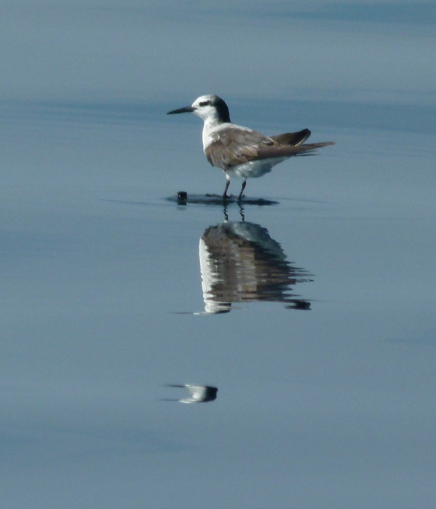 Bridled Tern Sterna anaethetus, non-breeding plumage, 100 km West of Malpe, India